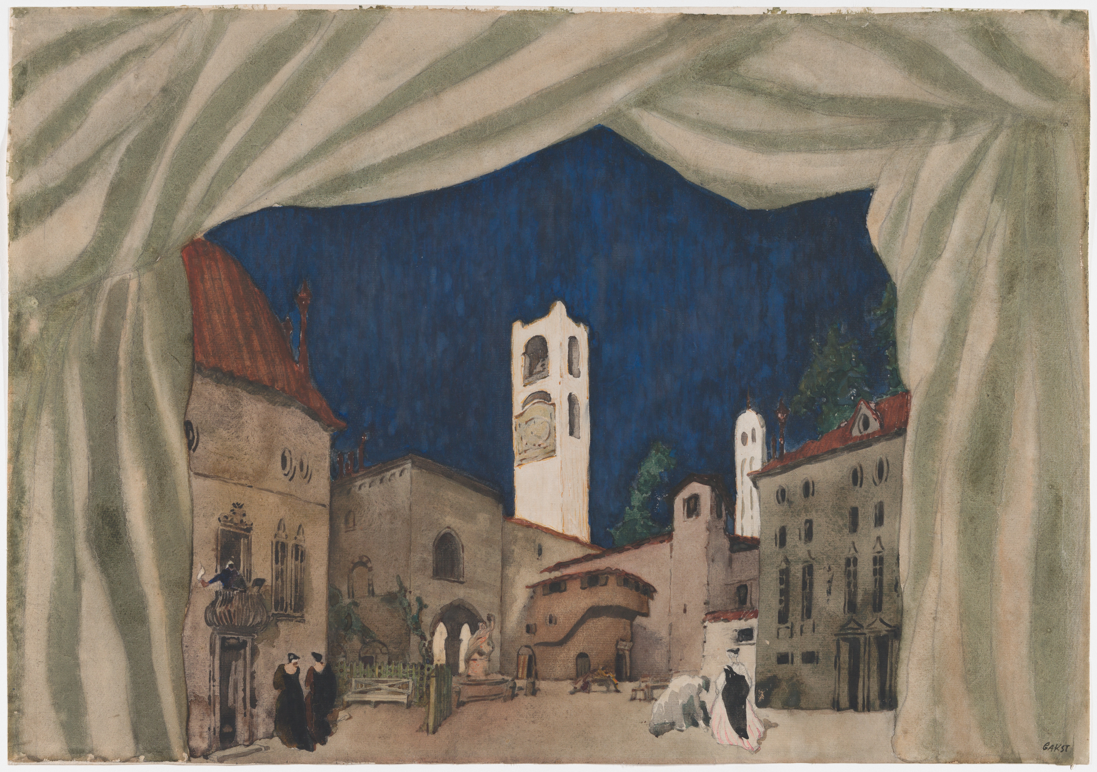 Drawing Ornament & Architecture; Drawings